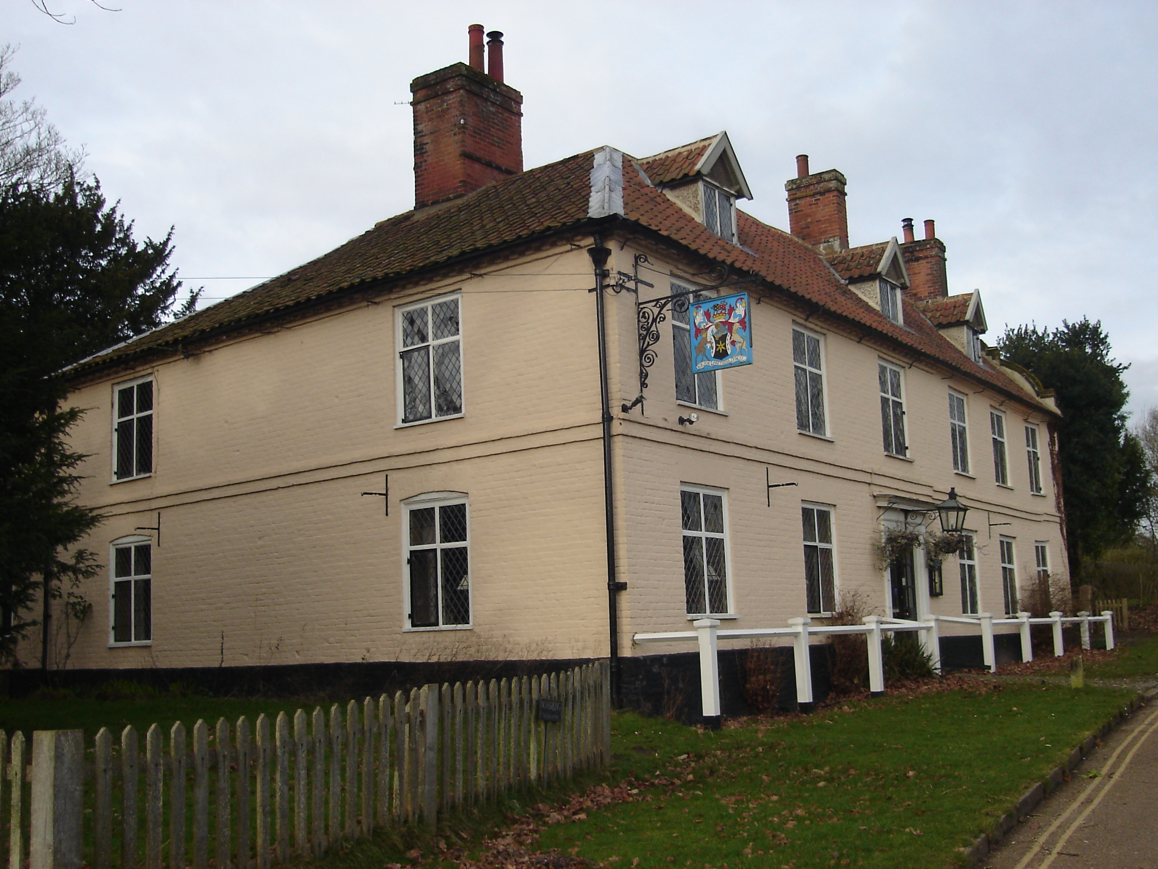 Photo of the Buckinghamshire Arms Public House at Blickling, Norfolk